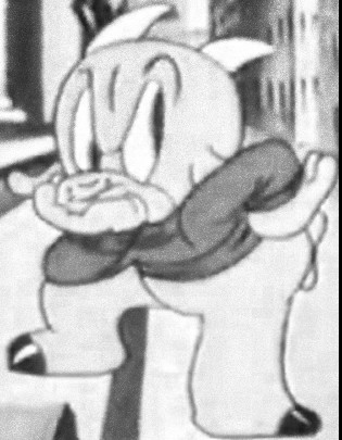 Gabby Goat, a short-lived character from the Looney Tunes series, scowls as his friend Porky Pig puts his savings in the bank. From the 1937 short film Get Rich Quick Porky, lapsed into the public domain after its copyright expired in 1966.